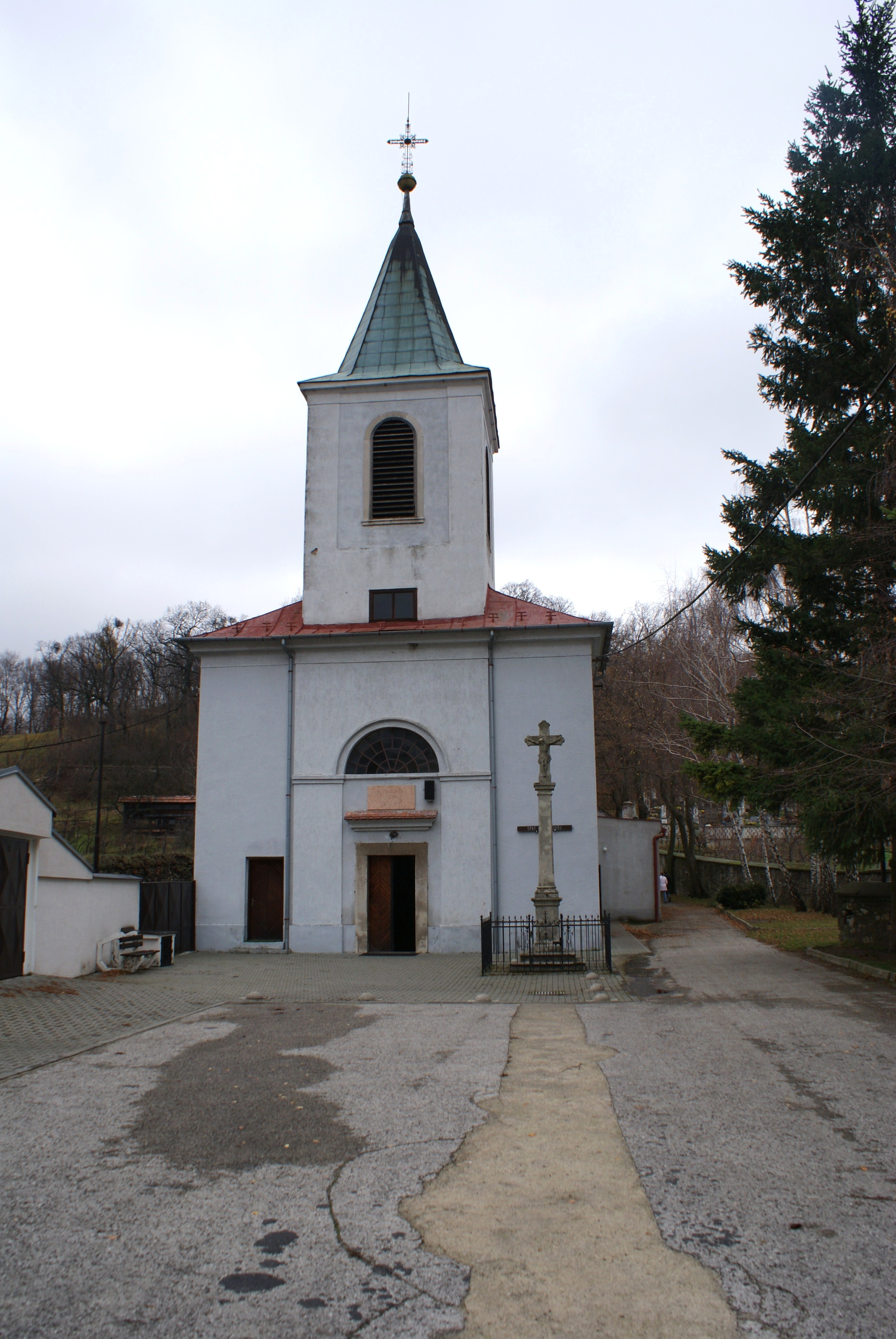 Doľany, a village in Pezinok district, Slovakia, church of St Katherine.